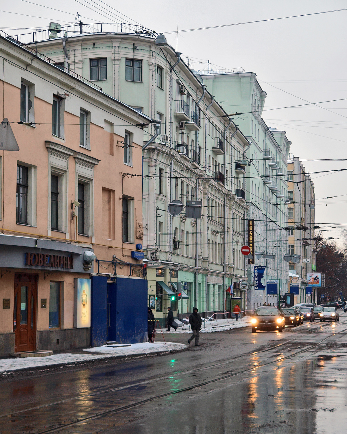 Pokrovskie Vorota Square, Moscow. Some of Pokrovsky Boulevard in foreground, Pokrovka Street, and Chistoprudny Boulevard behind it..